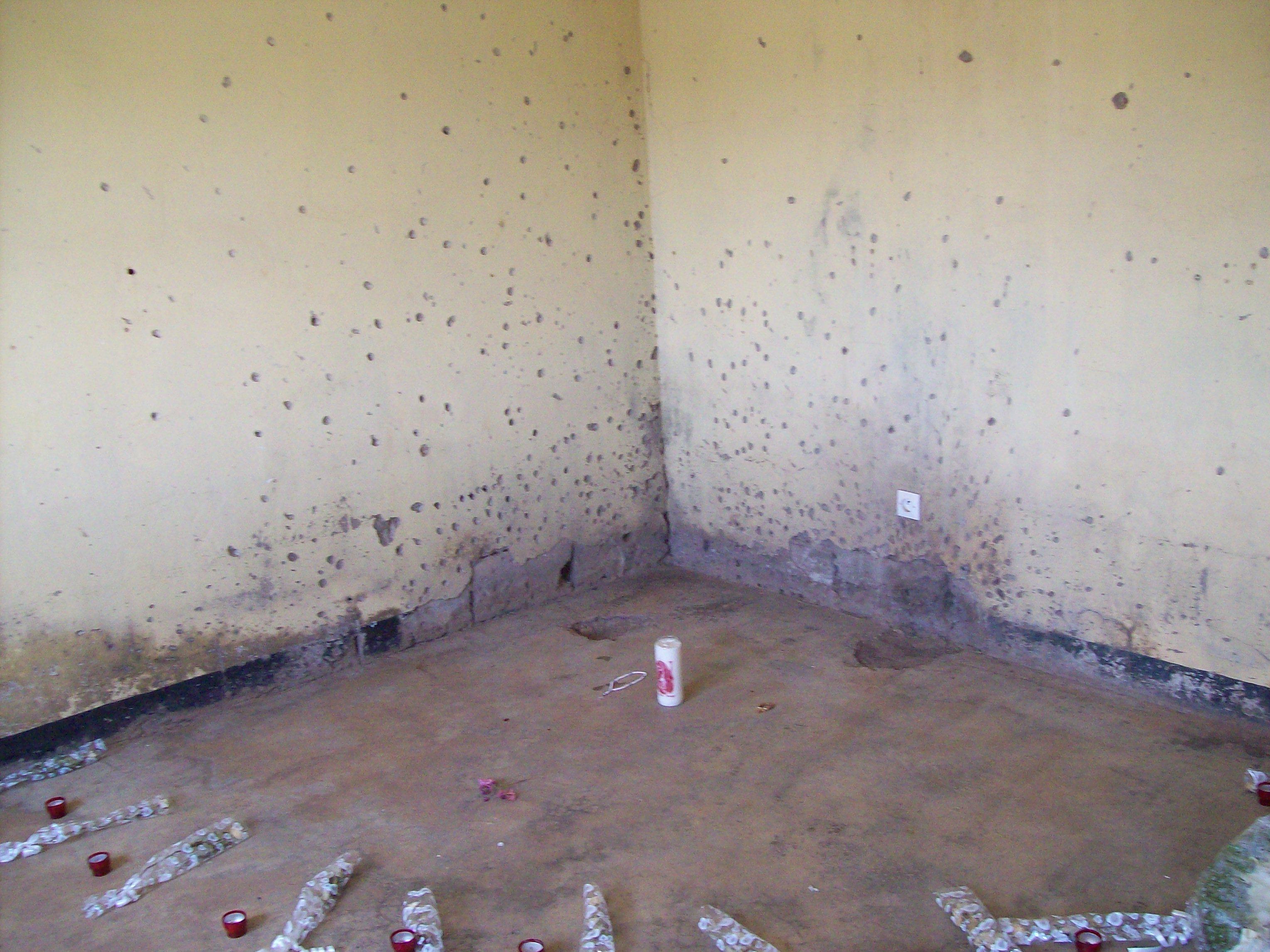 Memorial for the 10 Belgian UNAMIR Blue Berets killed in Kigali, Rwanda during the initial events of the 1994 Rwandan Genocide